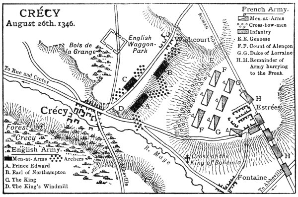 Map of the Battle of Crecy